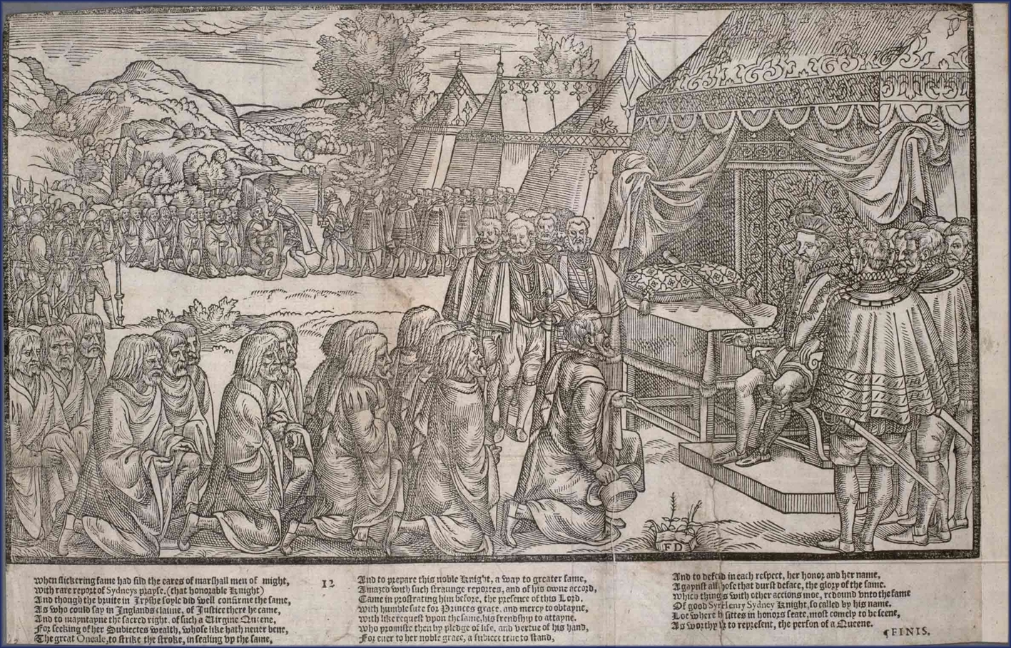 A plate originally from The Image of Irelande, by John Derrick, published in 1581. This image was taken from this Edinburgh University Library website - [1], with the description - "Turlough Lynagh O'Neale and the other kerne kneel to Sidney in submission. In the background Sidney seems to be embracing O'Neale as a noble friend".